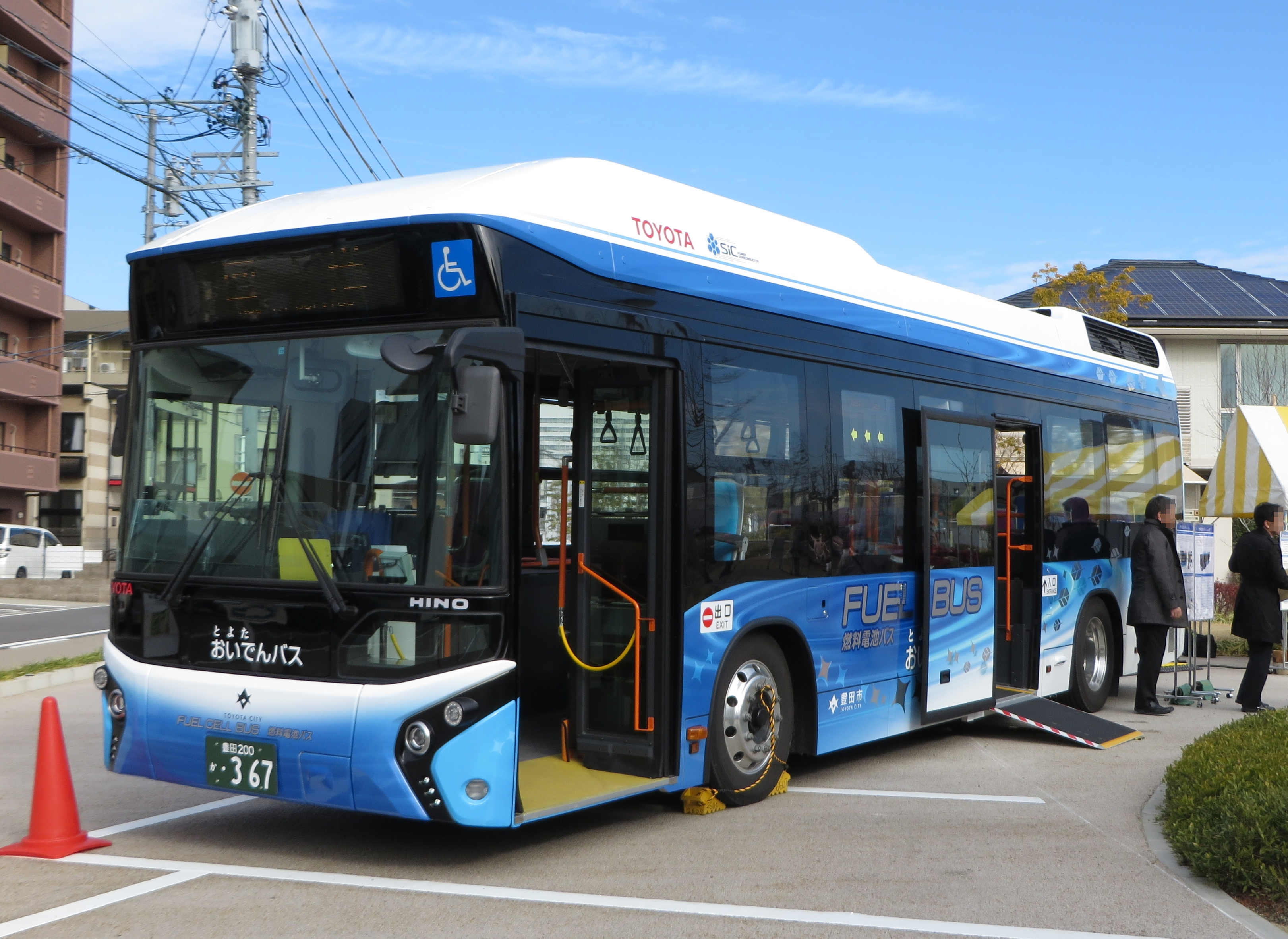 This is a picture of Fuel Cell Hybrid Bus.(TOYOTA-Hino joint development)